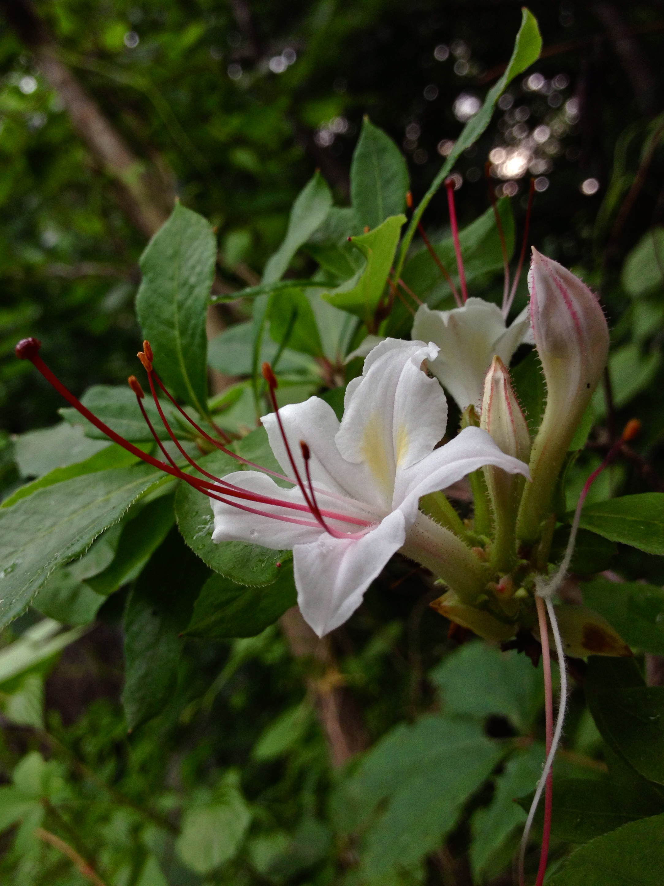 Photo of Rhododendron arborescens in flower. This is a native plant growing wild in Scotts Run Nature Preserve, in Fairfax county Virginia, USA. This species is a member of the Ericaceae family.